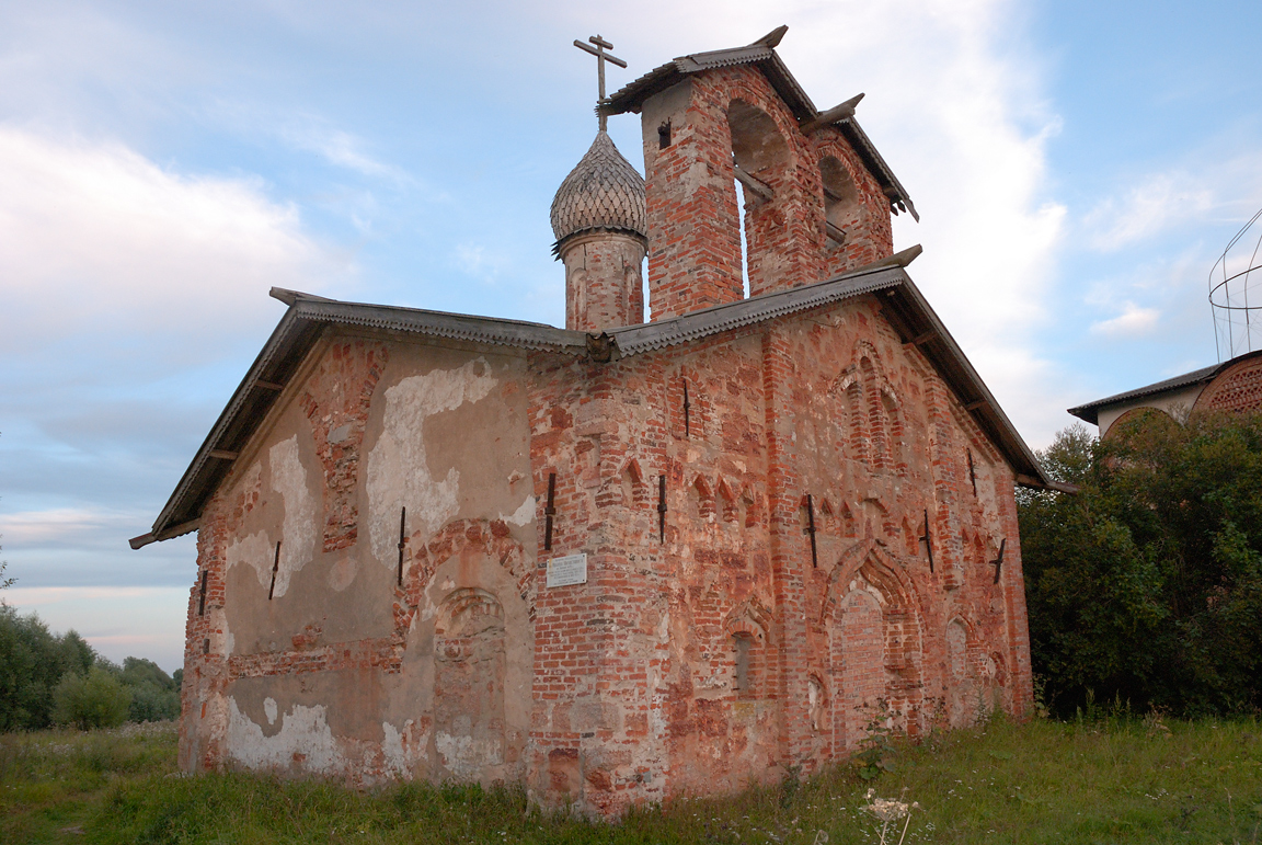 Veliky Novgorod, Church of St John the Almoner on Lake Myachina.